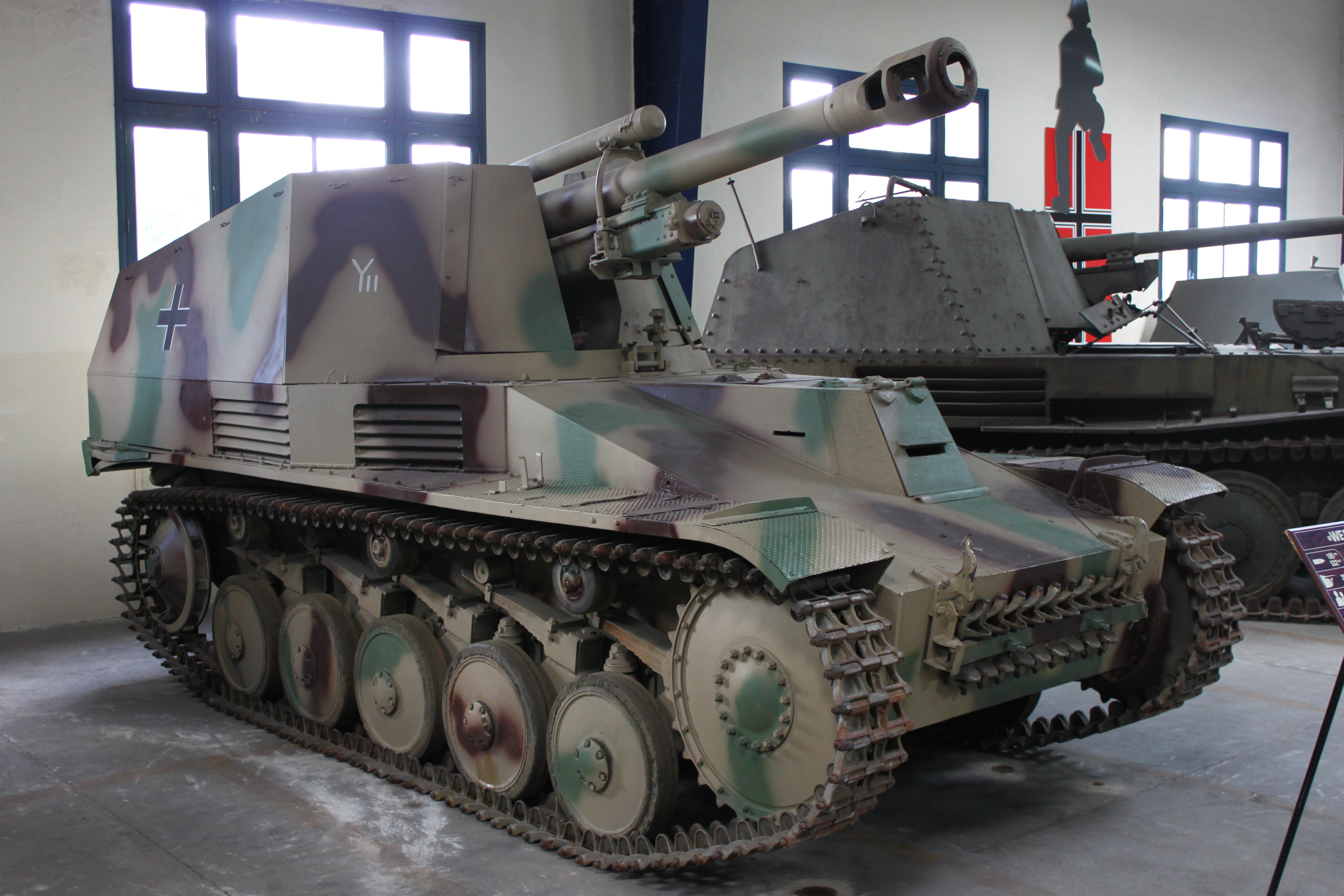 At the Musée de Blindés (France)